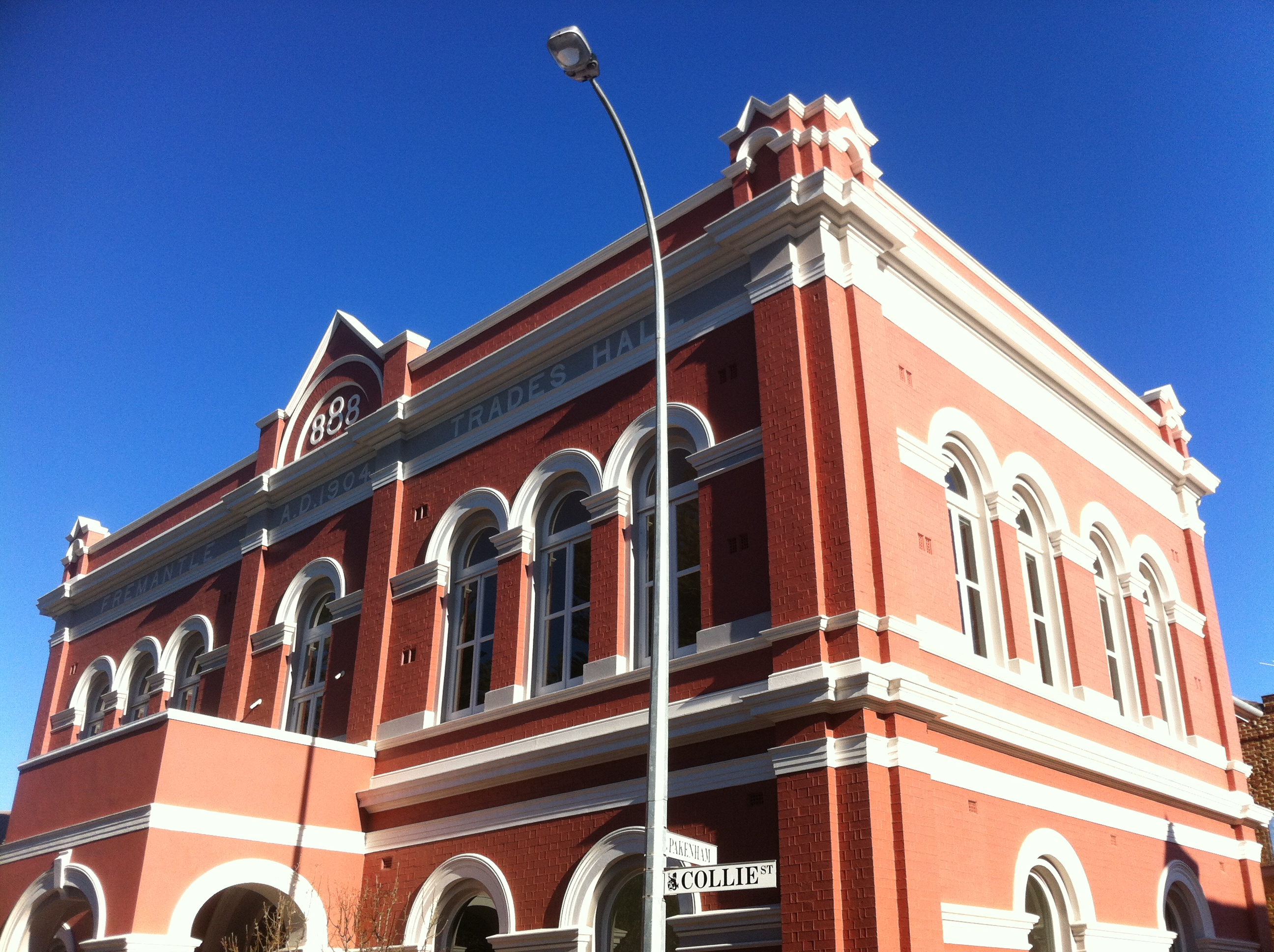 Fremantle Trades Hall corner view